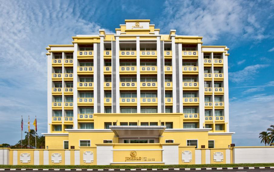 WHERE HOTEL SERVICES COME IN A HOME SETTING